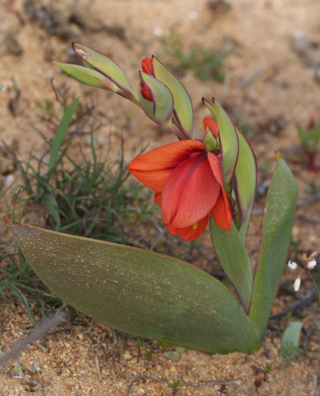 In the Skilpad wildflower preserve, Namaqua National Park